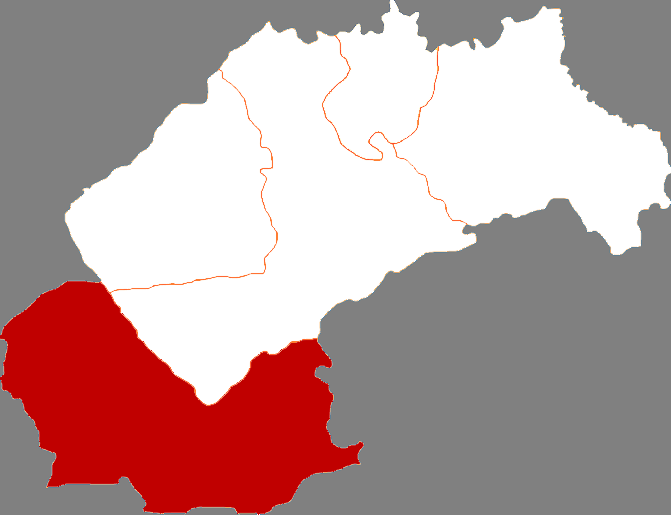 Location of Changling county in Songyuan City, China